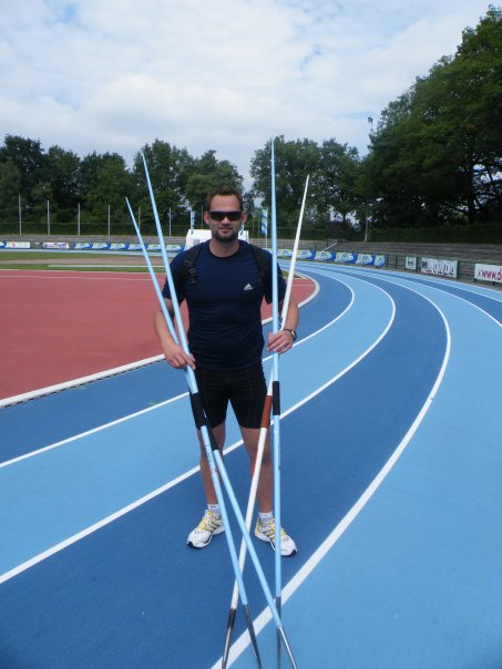 Took this picture myself of Gerhardus Pienaar during training